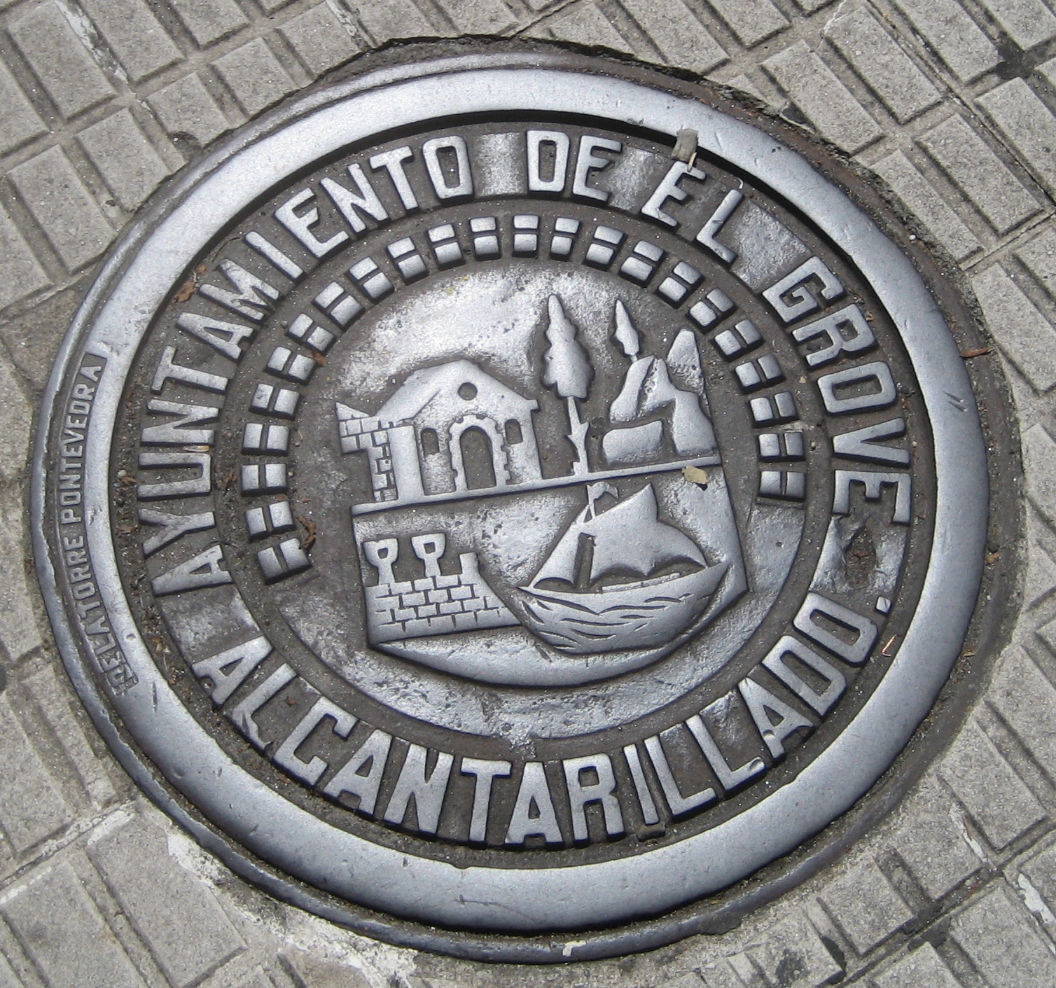 Manhole cover in El Grove (Galicia, Spain). Text: "Ayuntamiento de El Grove. Alcantarillado. Relatorre Pontevedra"